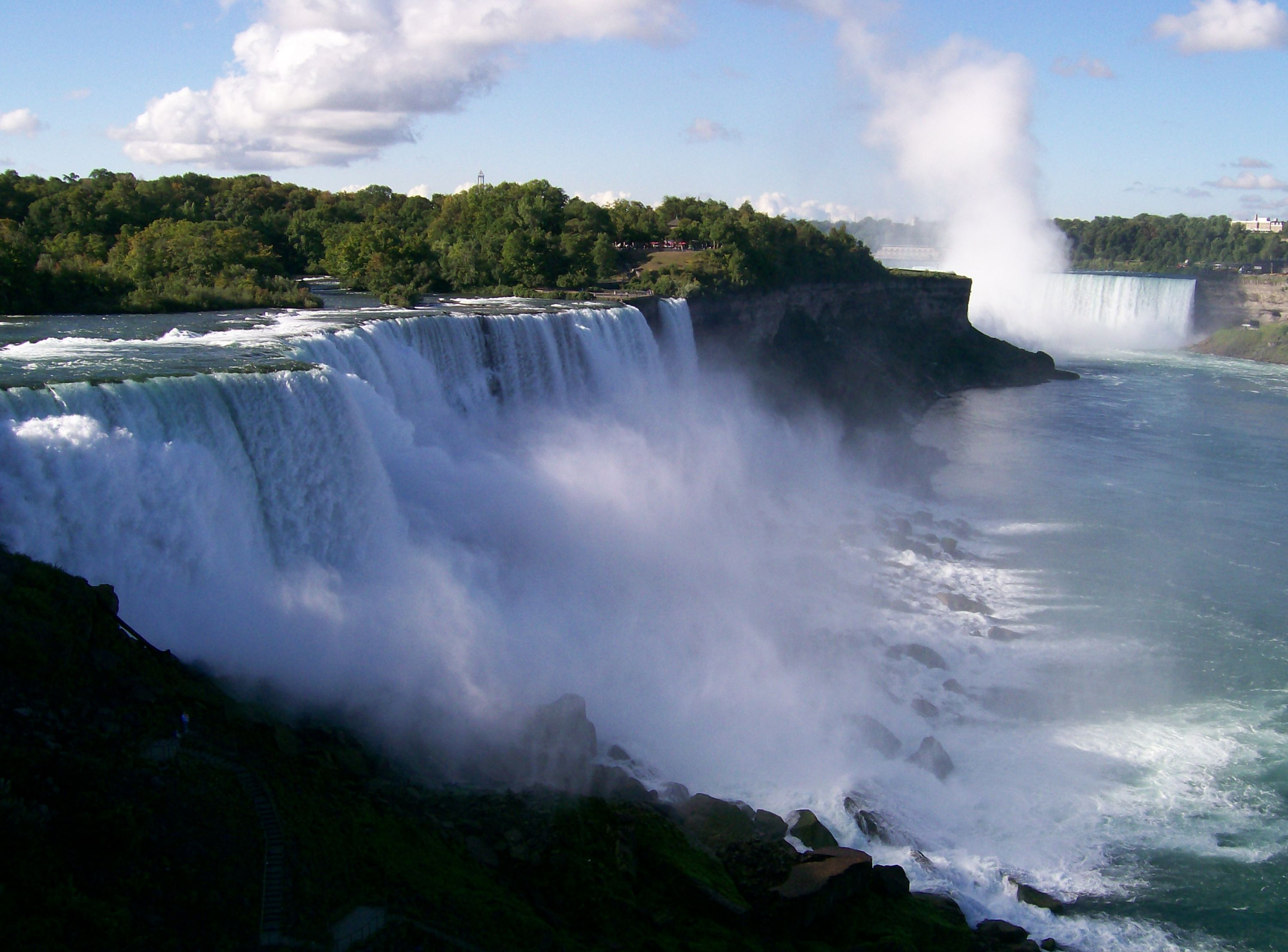 Pearce took this picture at Niagara Falls in early September 2007 from the official observation tower. Niagara Falls, USA.